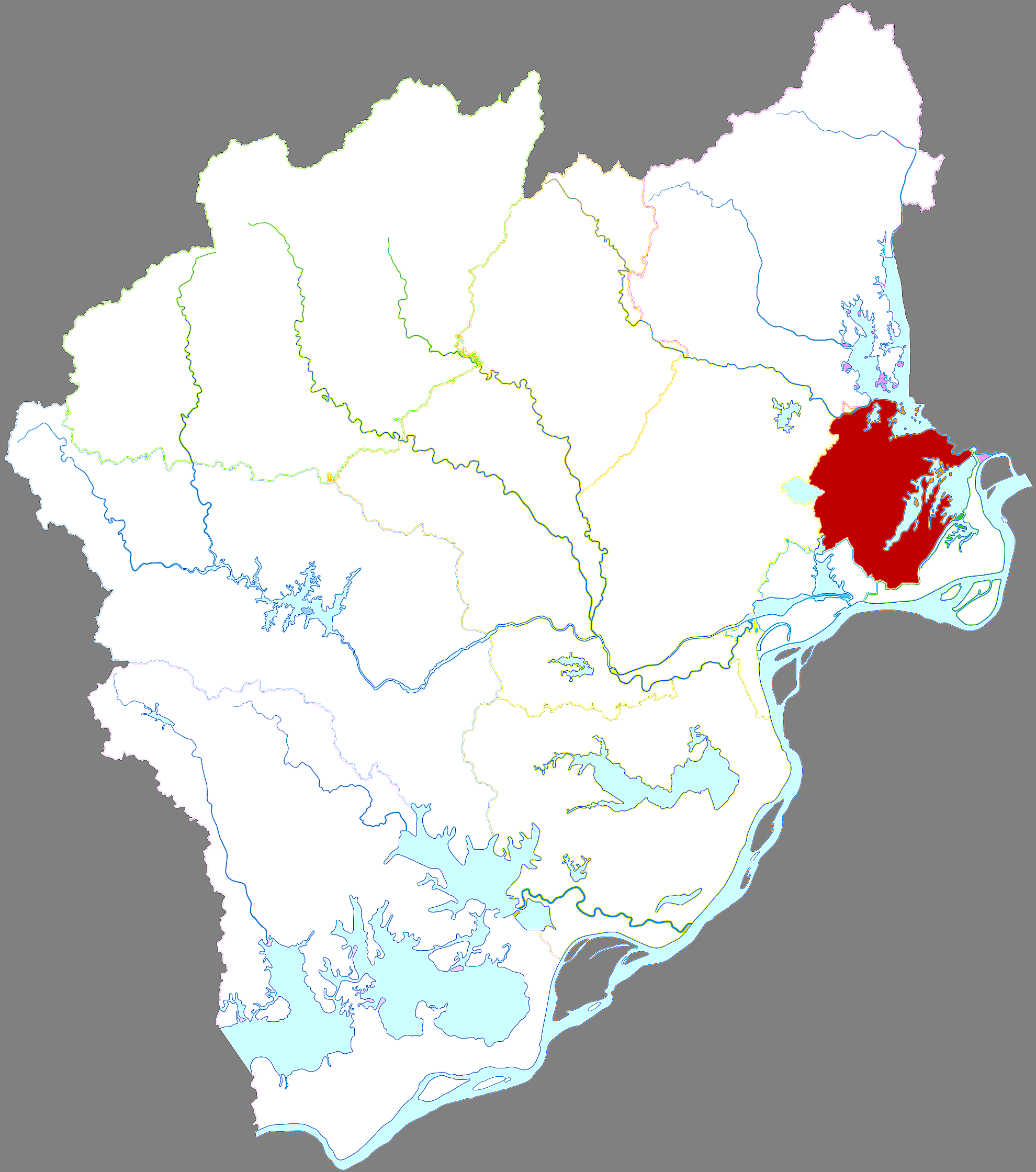 Location of Yixiu district in Anqing city, China